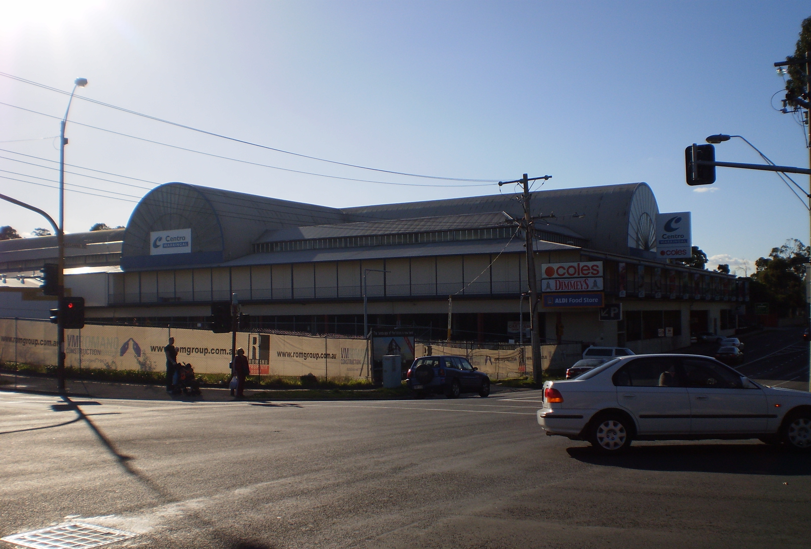 A view of Warringal Shopping Centre in Heidelberg, Victoria.